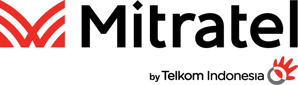 Logo Mitratel